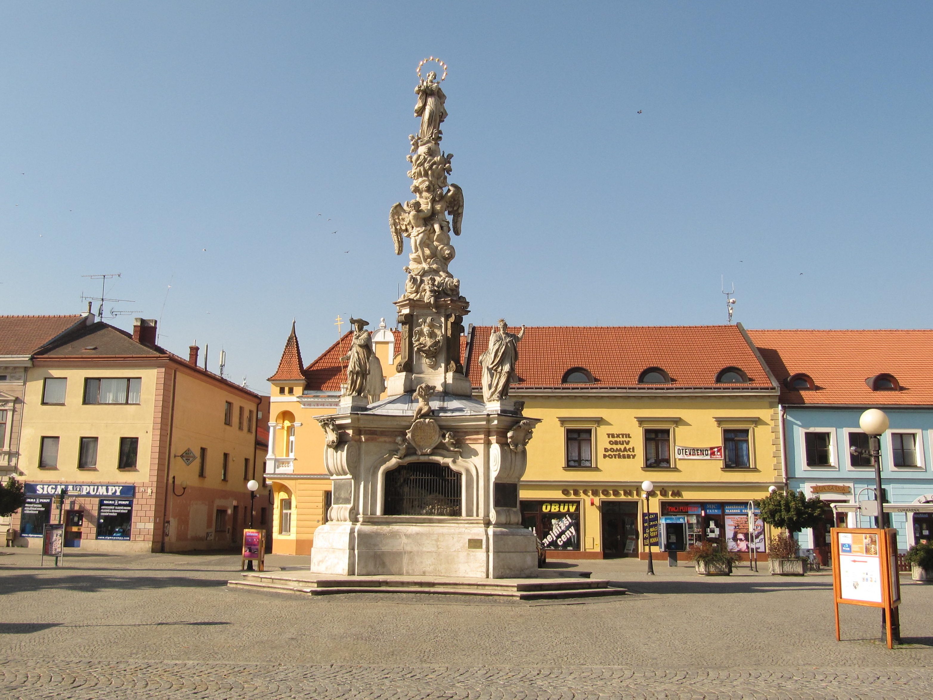 Uherské Hradiště , Czech Republic. Marian column.